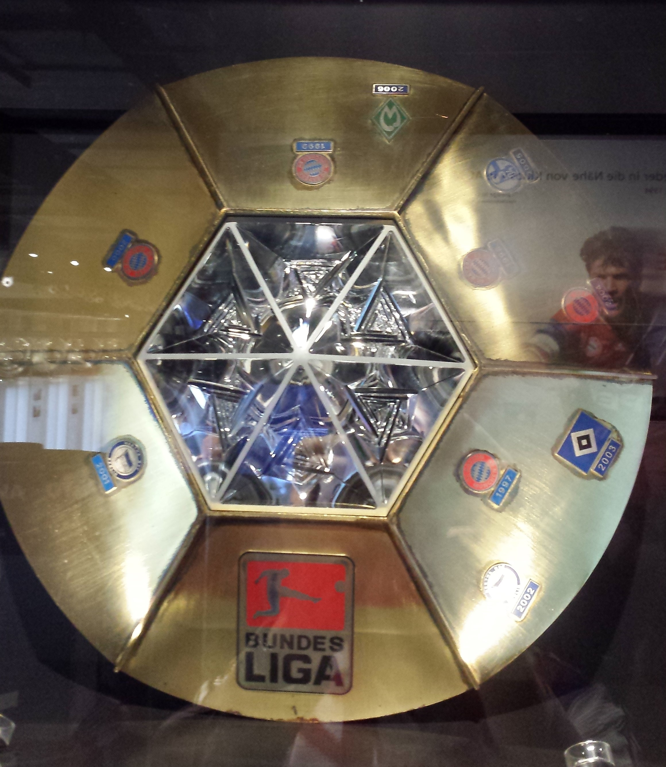 Copy of the Trophy of the german Ligacup, shown in the FC Bayern Erlebniselt.